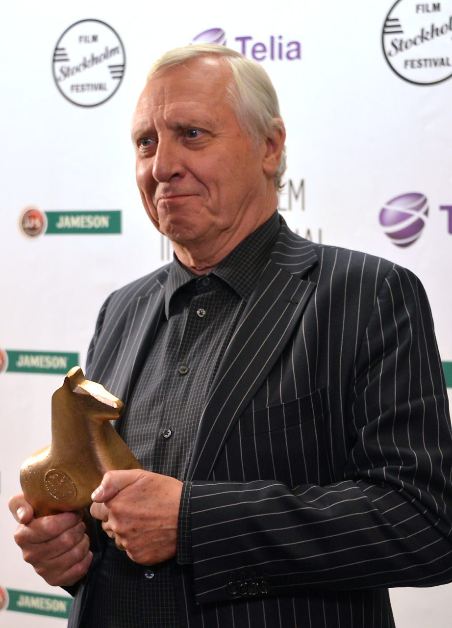 Peter Greenaway is awarded the Stockholm Visionary Award at the Stockholm International Film Festival on November 8, 2013.